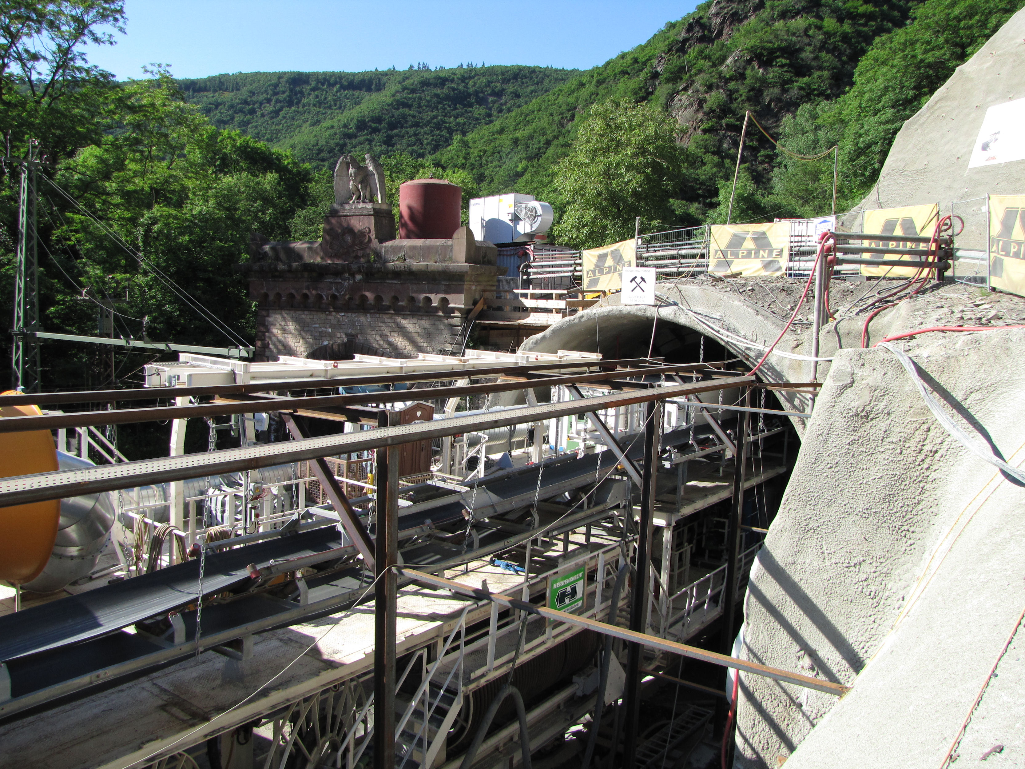 Kaiser-Wilhelm-Tunnel nearby Eller, construction of second tunnel